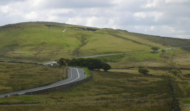 A671 towards Bacup